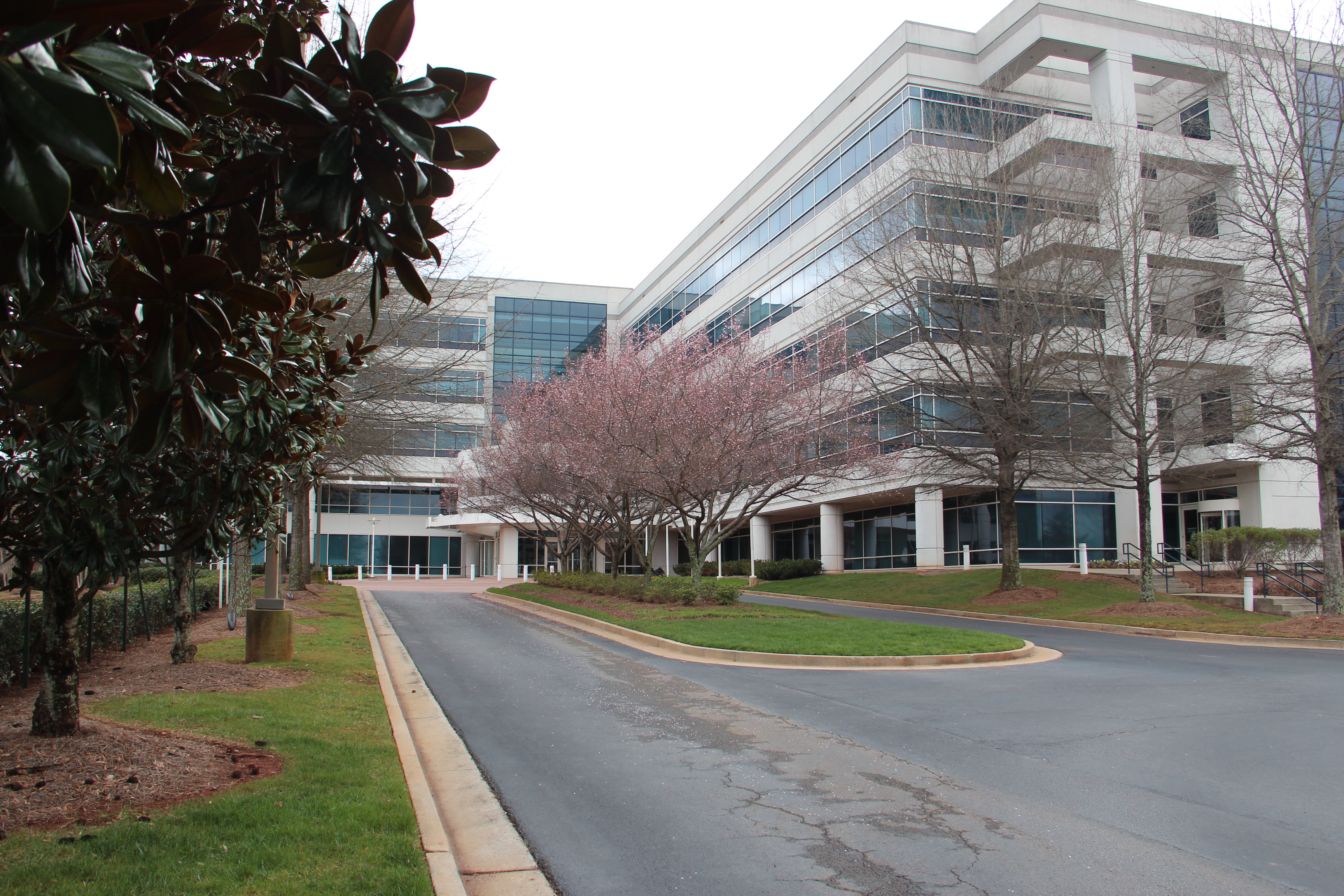 5995 Windward Pkwy in Alpharetta. Currently occupied by the McKesson Corporation